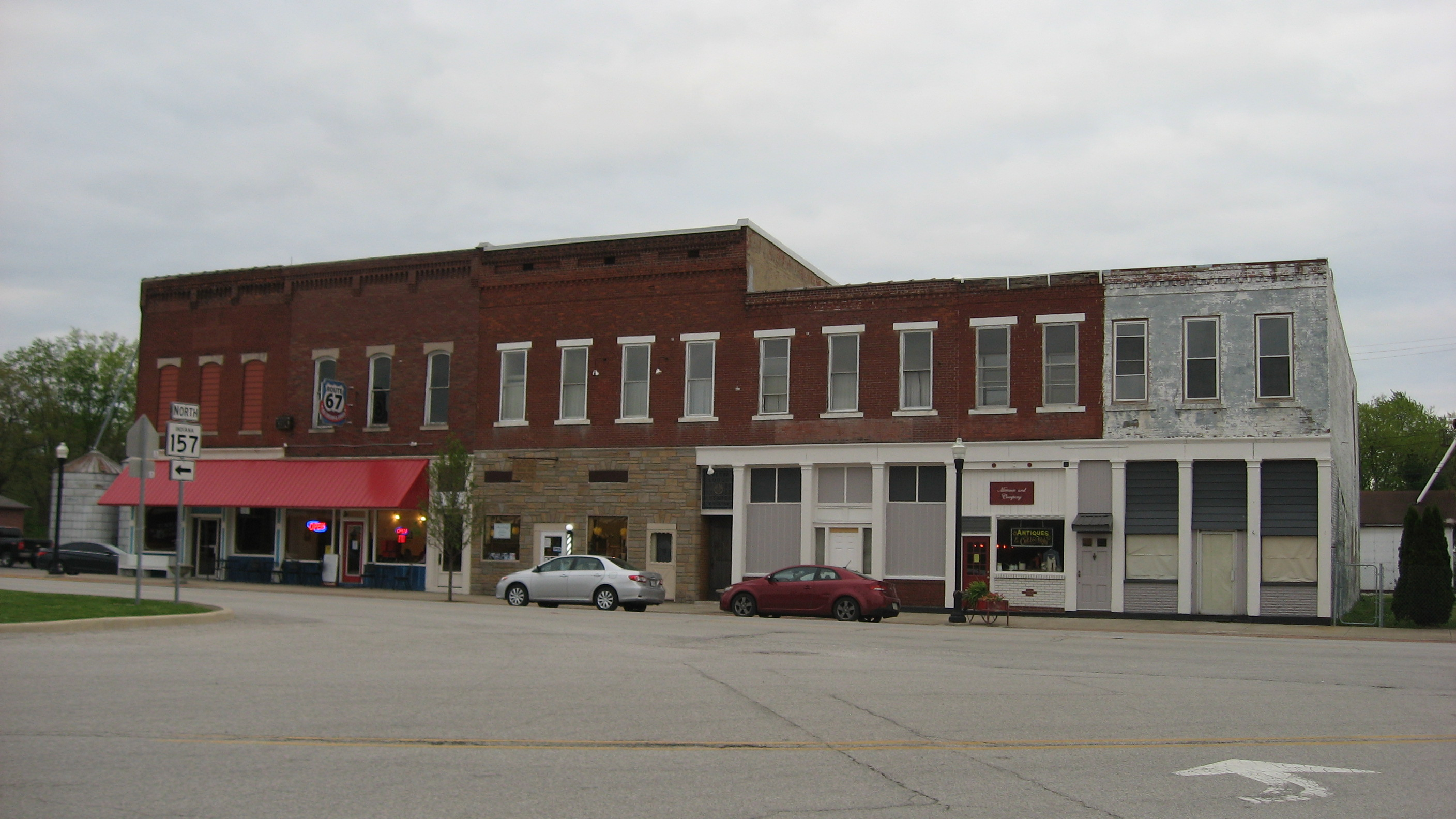 Buildings on the eastern side of Commercial Street (U.S. Route 231 and State Roads 67/157) just south of the First Street intersection in central Worthington, Indiana, United States. This spot lies within the local Worthington Commercial Historic District; the buildings were constructed in 1880 and 1915.